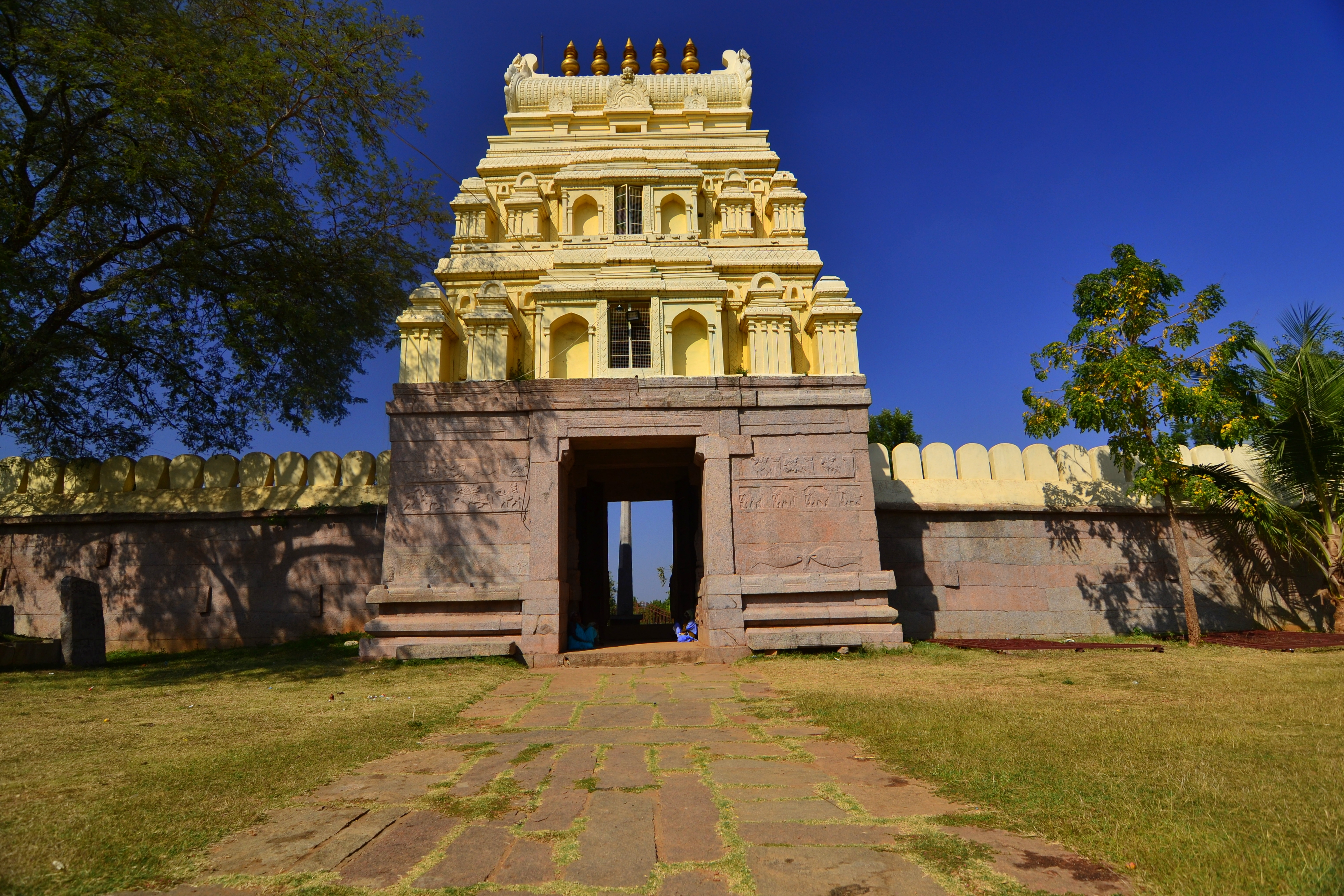 Entrance of ChannaKeshawa Temple